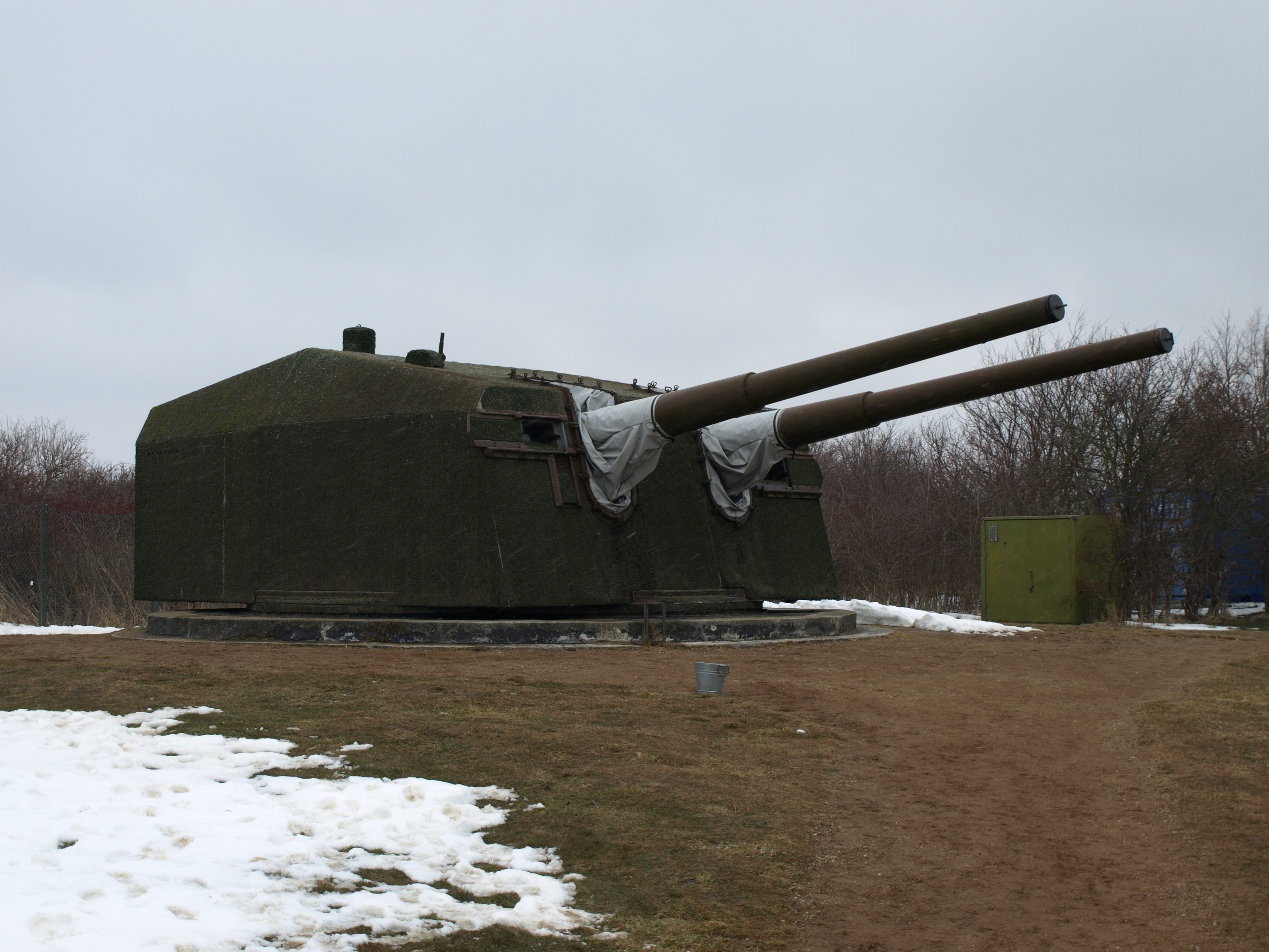 Former Danish coastal battery 'Stevnsfortet. Now a museum